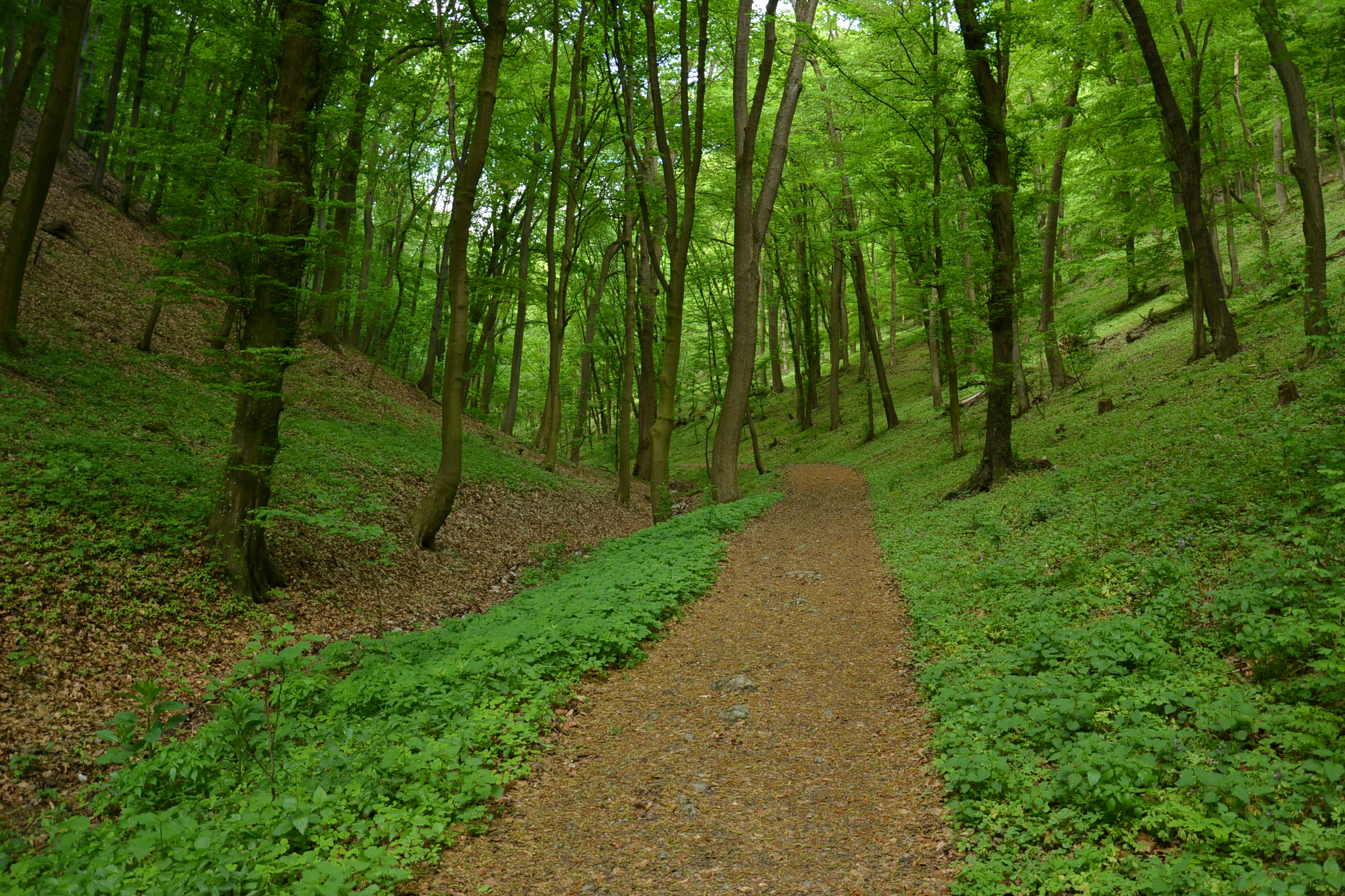 Trail blazing nr 2412 in Slovakia